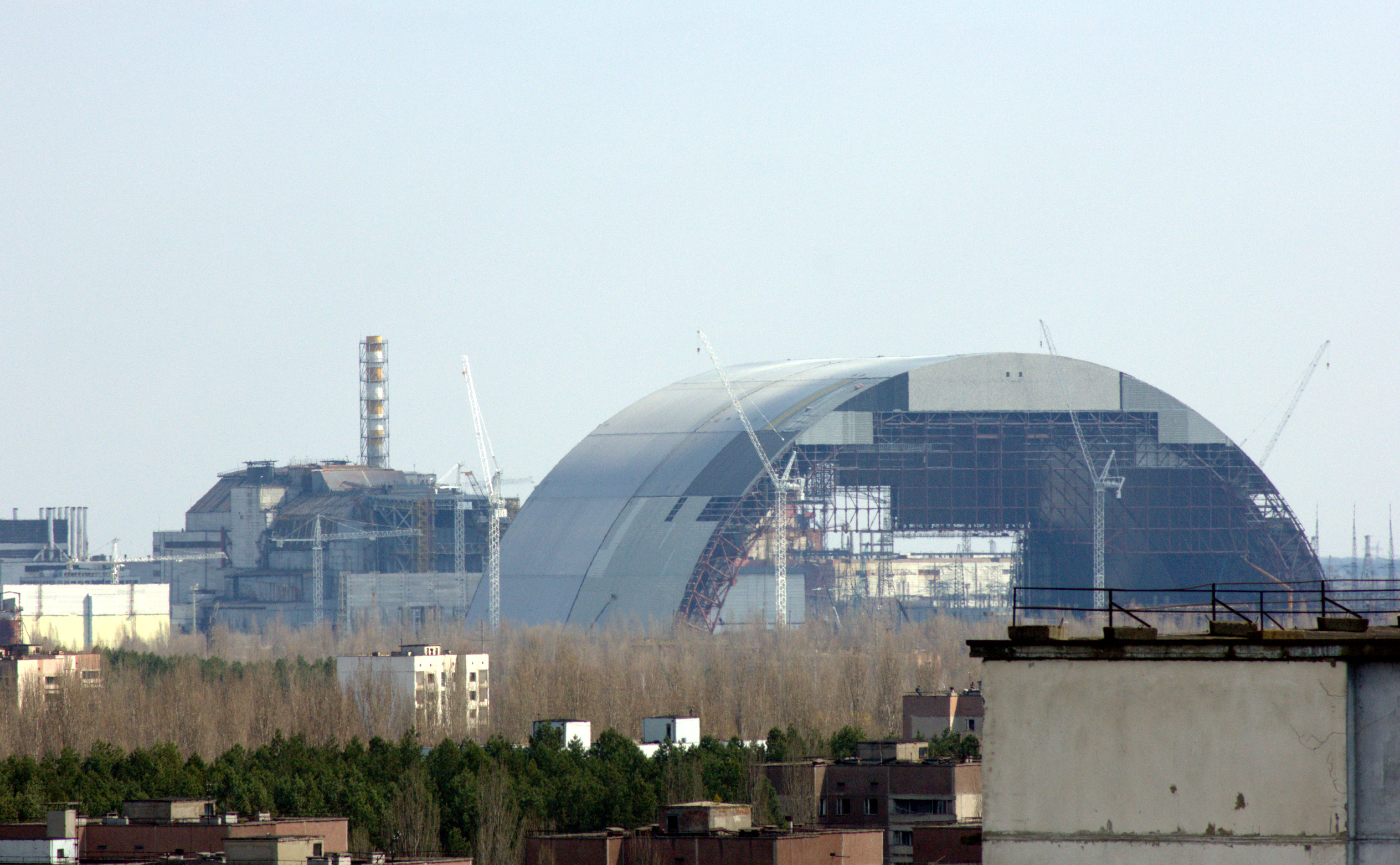 New Safe Confinement under construction in April 2015. Seen are the two sections joined together and nearing completion. Taken from a distance to show to end profile on the confinement.